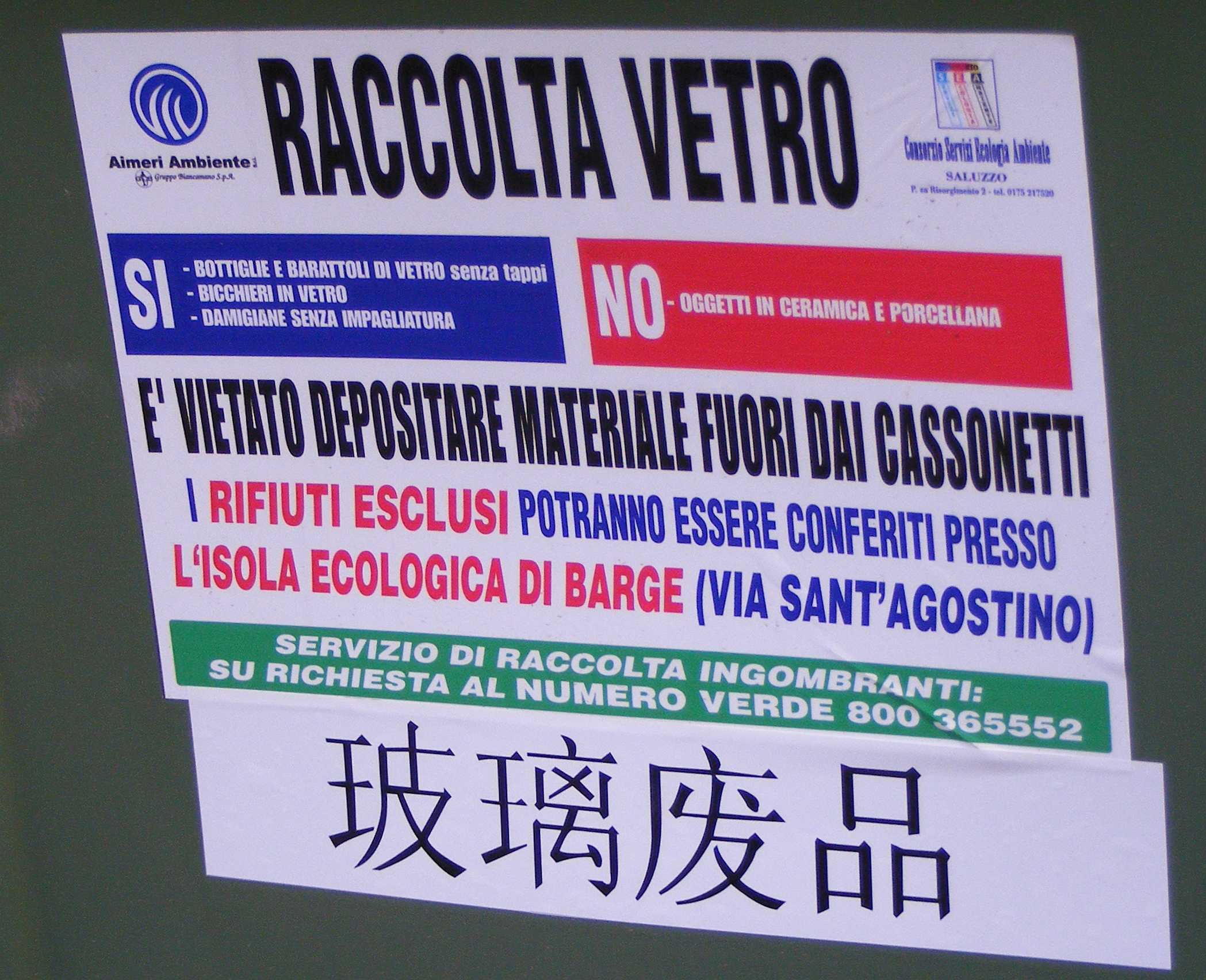 Bilingual (italian and chinese) waste sorting instructions (Barge, CN, Italy)